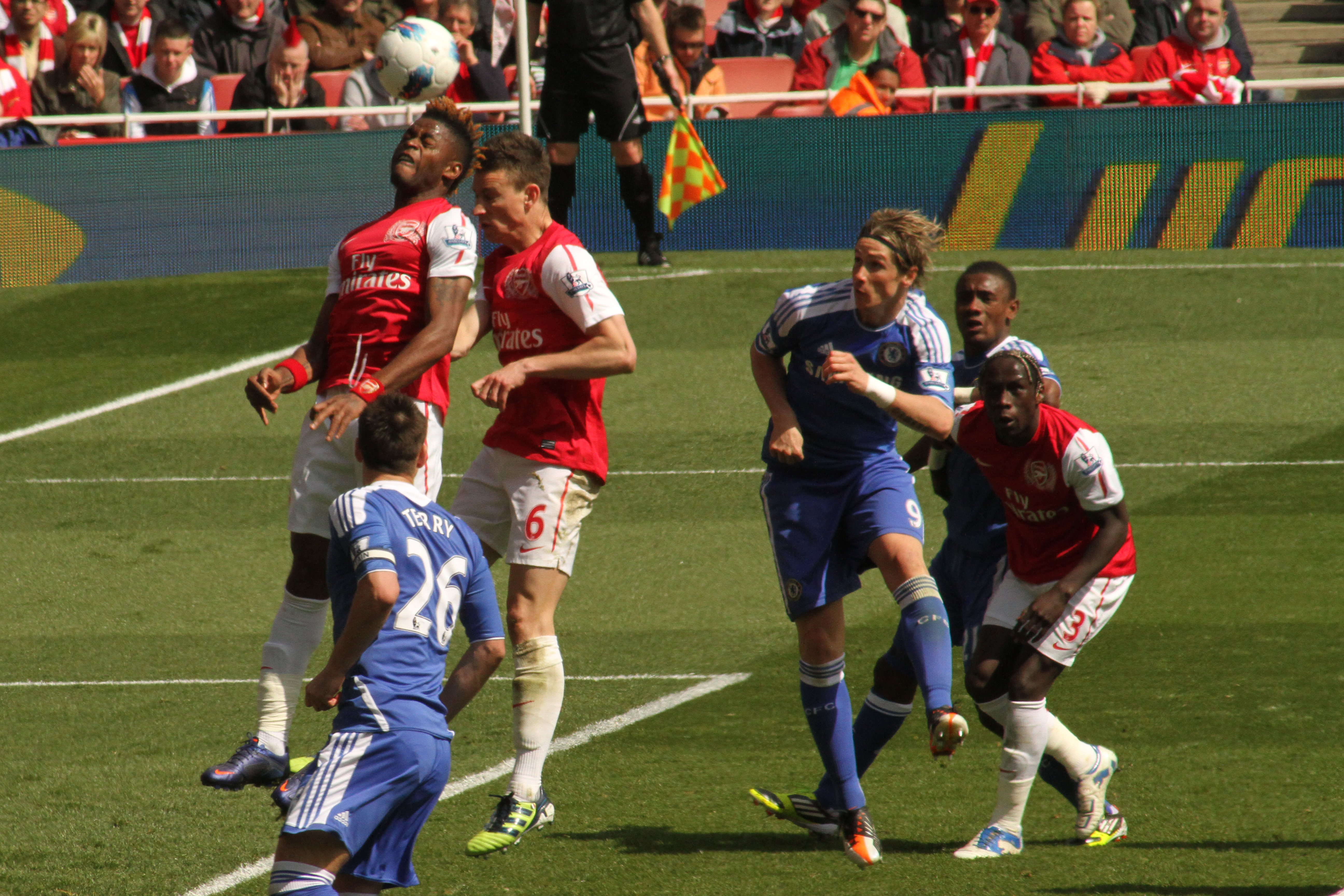 Alex Song (left) and Laurent Koscielny (6) rise for the ball as Fernando Torres (9) awaits.